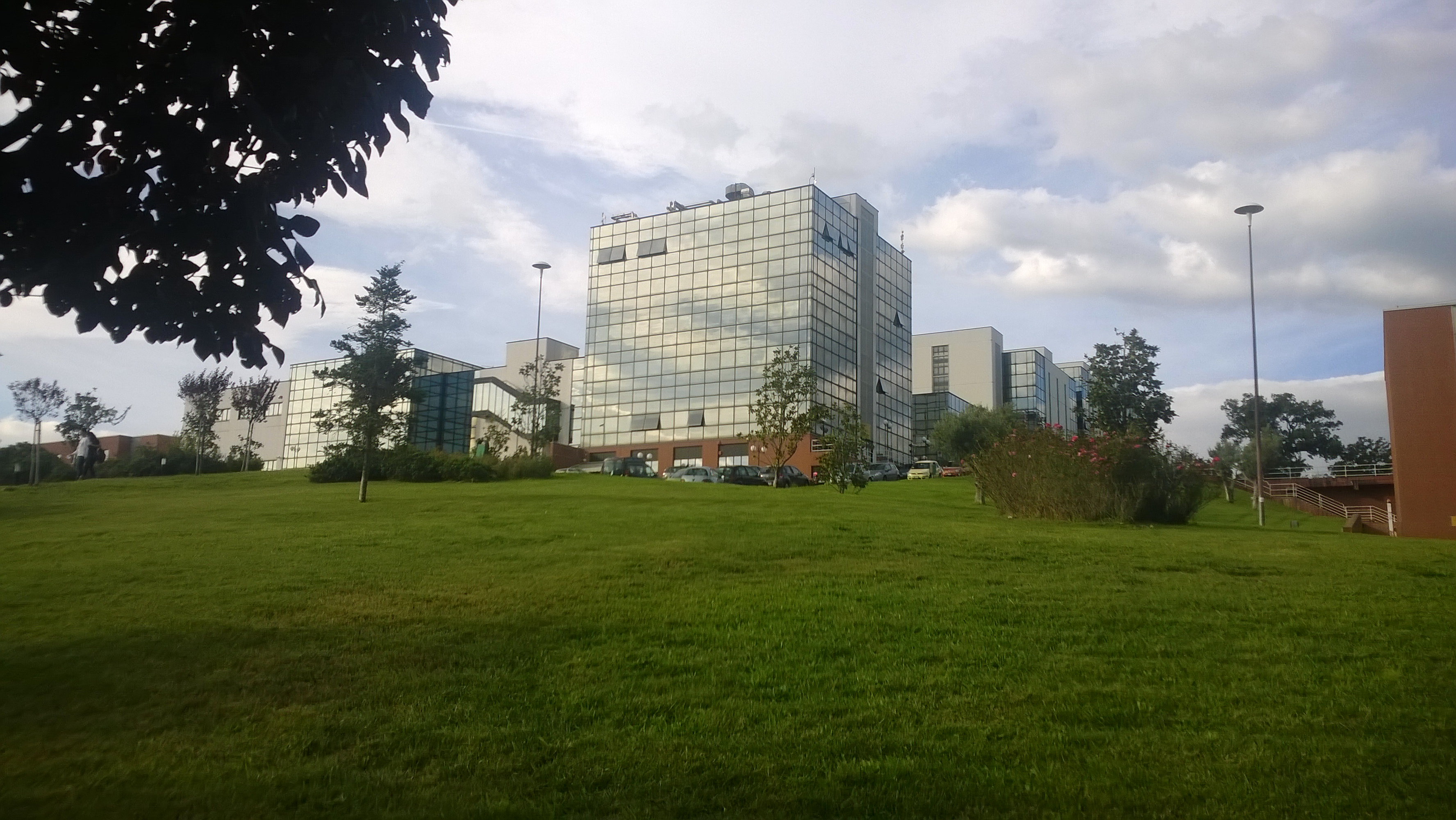 Vista degli uffici del rettorato